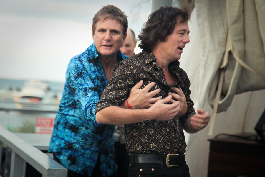 Richard Grossman and Brad Shepherd from Hoodoo Gurus backstage at their concert in Rottnest Island, April 2012